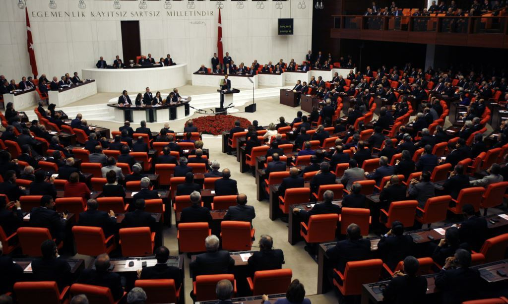 Grand National Assembly of TurkeyTürkçe: Türkiye Büyük Millet Meclisi